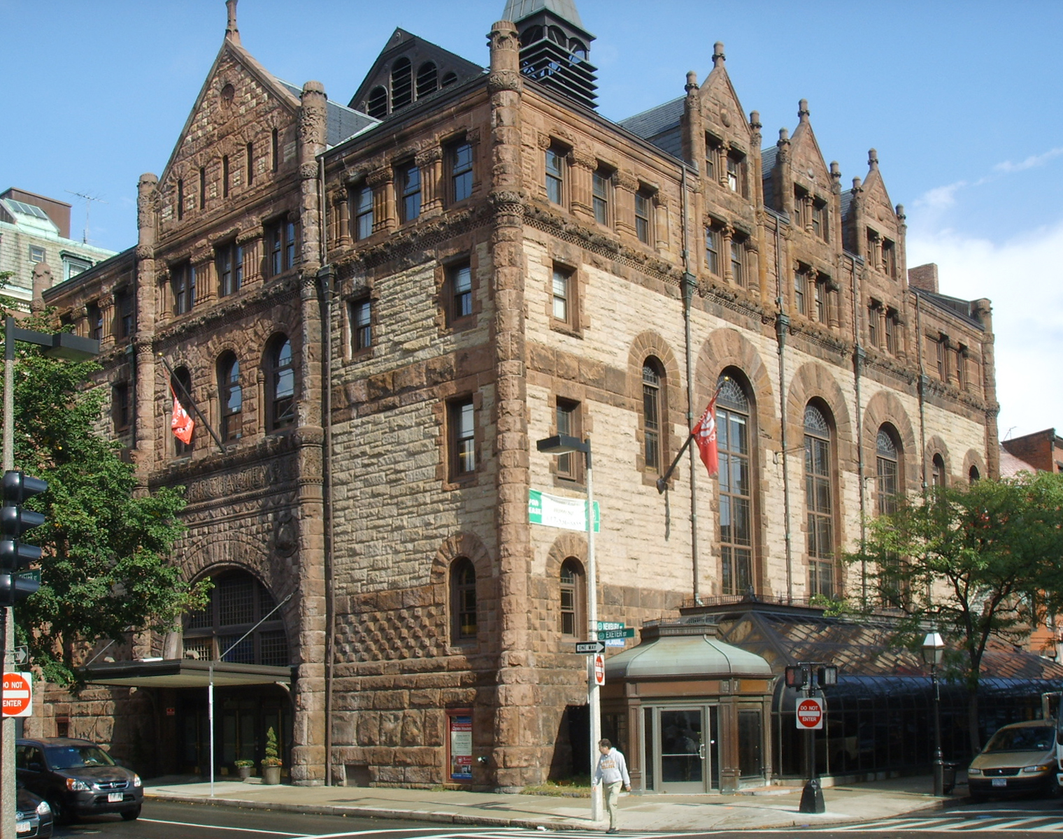 6 Exeter Street by William Richardson, Boston, MA